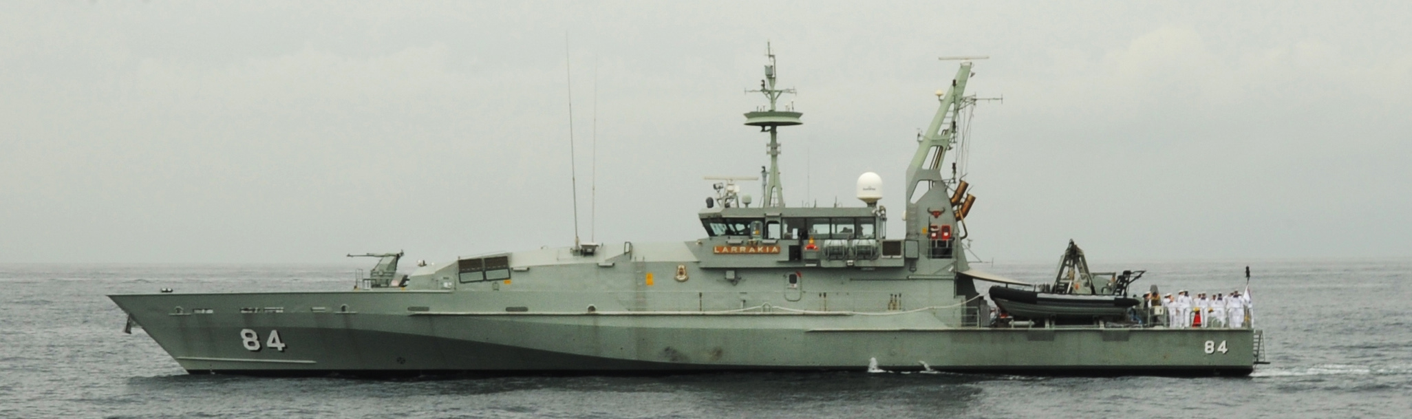 Sailors aboard the U.S. Navy guided-missile destroyer USS Sampson (DDG-102), not visible, salute as the Australian Armidale-class patrol boat HMAS Larrakia (ACPB 84), during a ceremony commemorating the 73rd anniversary of the Battle of Sunda Strait. Representatives from Australia, the U.S. and Indonesia visited the graves of the cruisers HMAS Perth (D29) and USS Houston (CA-30) which were sunk fighting Japanese naval forces on 1 March 1942. More than 1,000 Australian and U.S. sailors gave their lives during the battle.